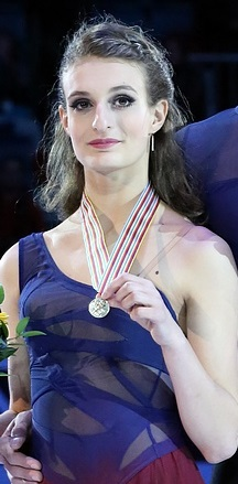 Gabriella Papadakis at the 2016 European Championships.